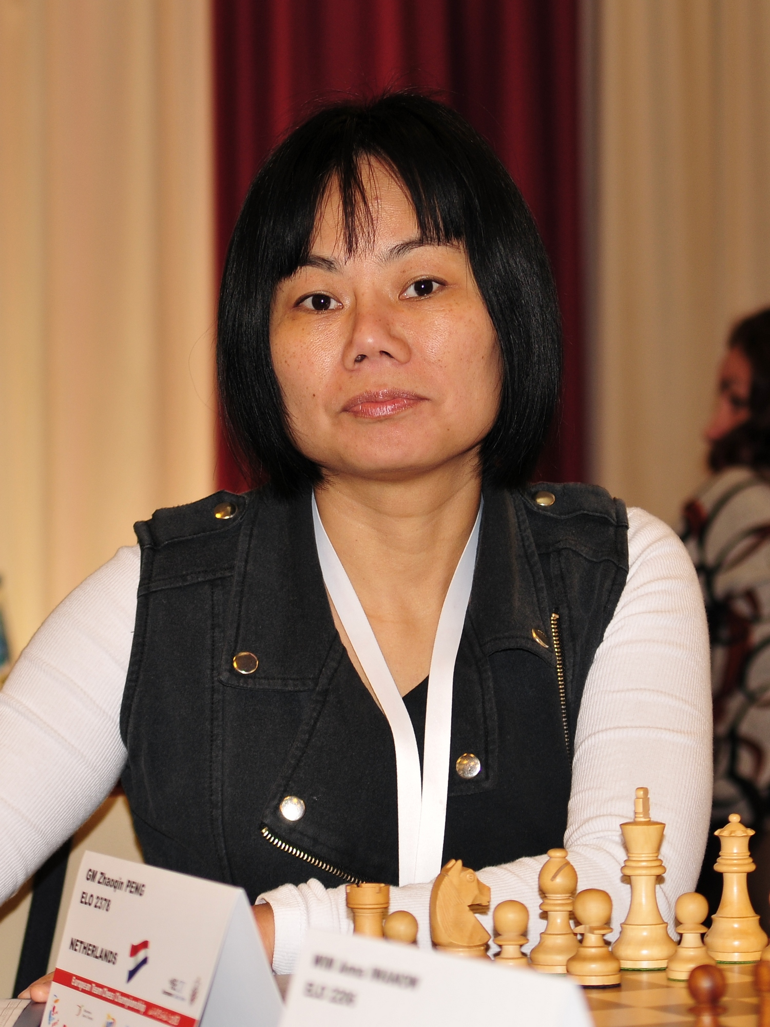 GM Peng Zhaoqin, European Chess Team Championship Warsaw 2013